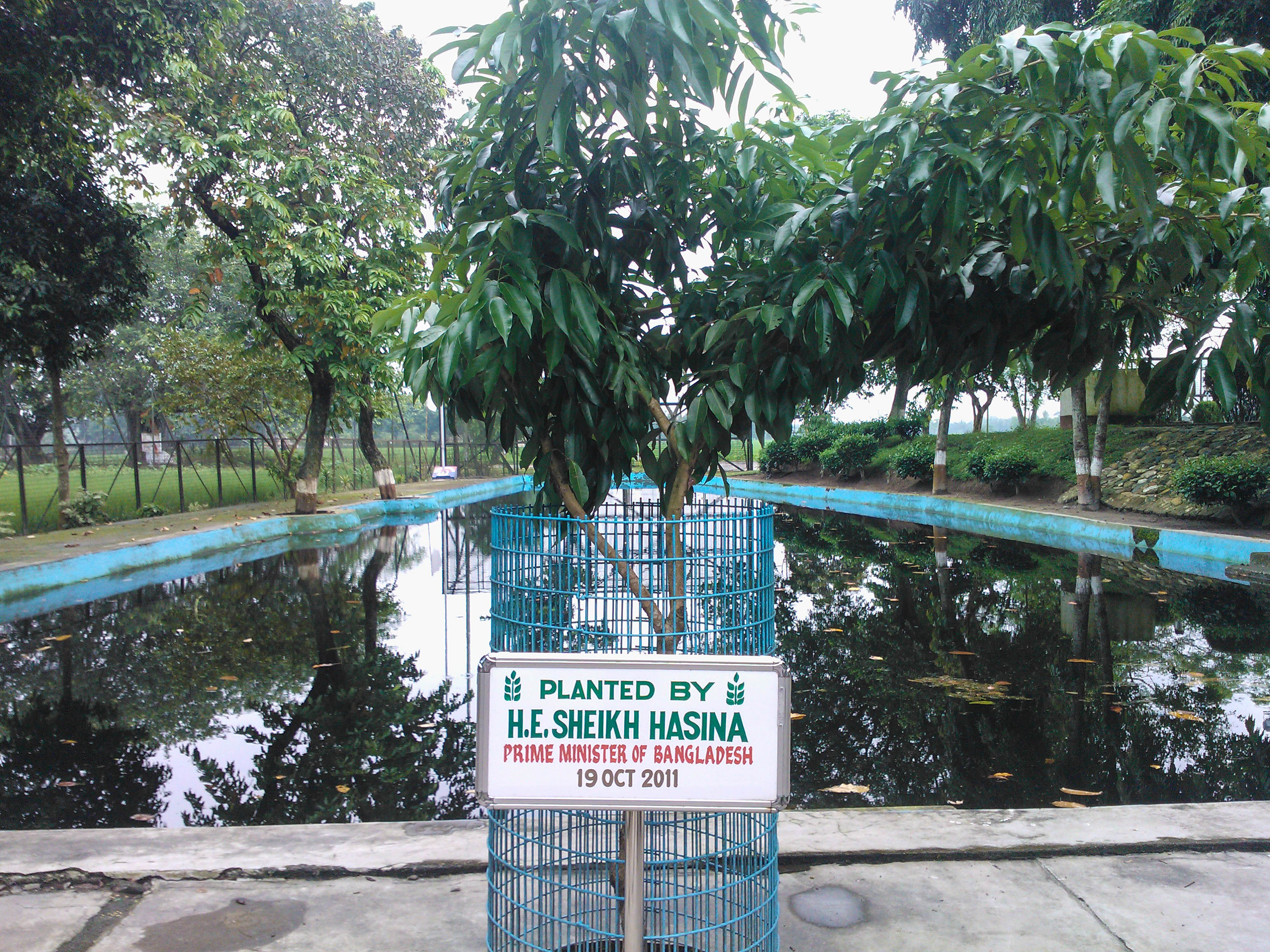 Tin Bigha Corridor (তিনবিঘা করিডর). The ‘Tin Bigha Corridor’ connceting the Dahgram-Angarpota enclave with mainland Bangladesh.